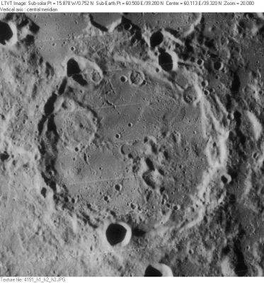 Messala lunar crater - image LO-IV-191H